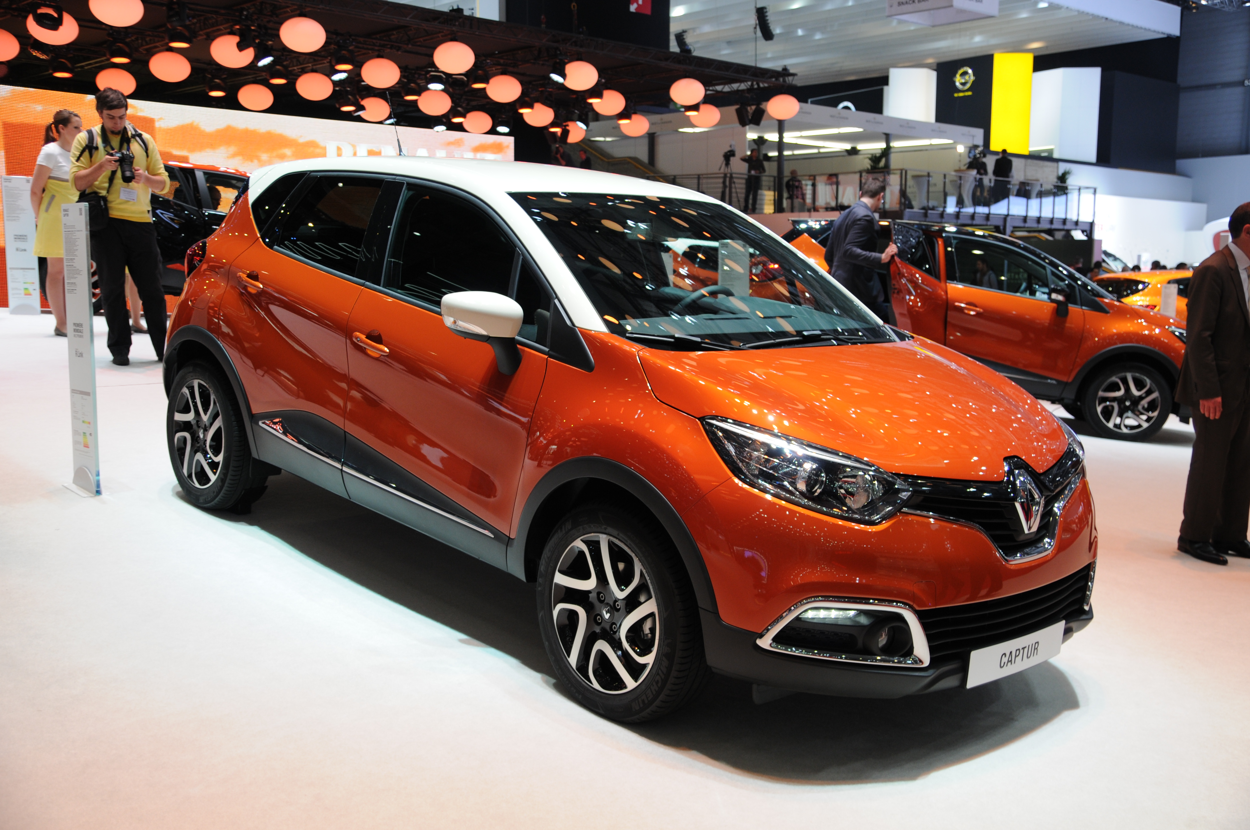 Geneva Motor Show 2013 (photos taken on the first press day)